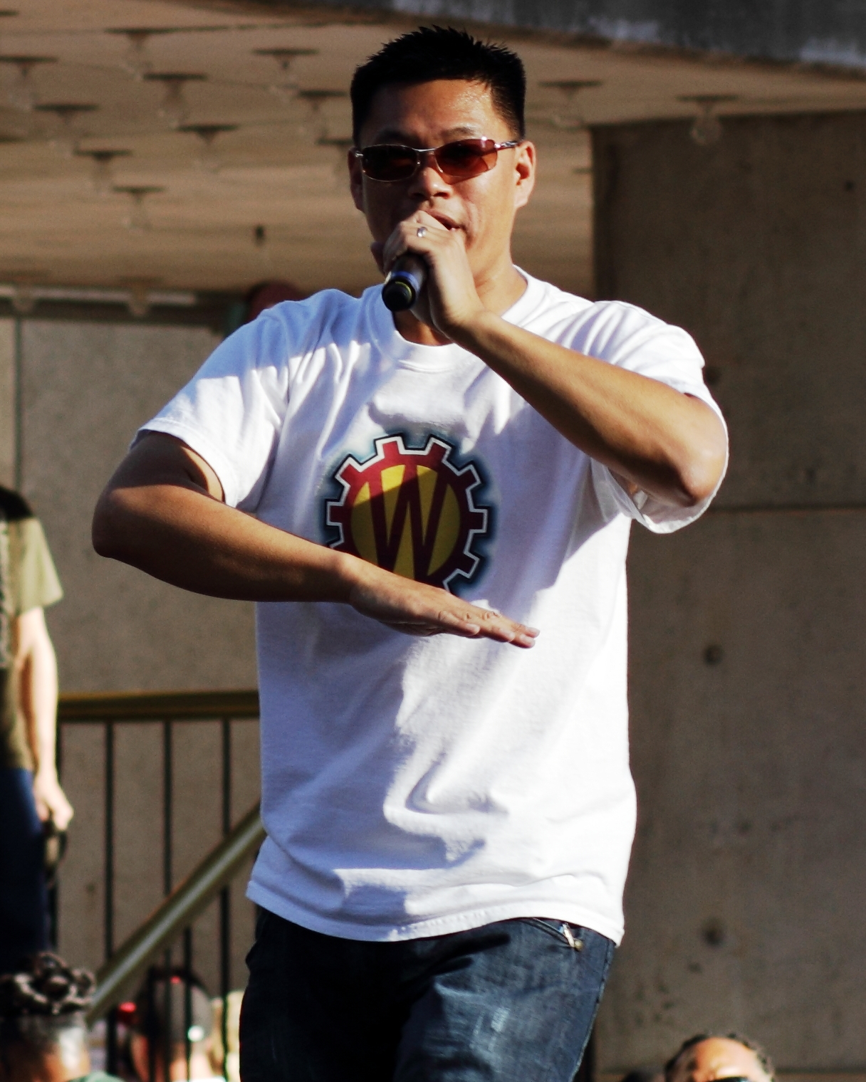 Photo of concert at the 2010 California State Fair